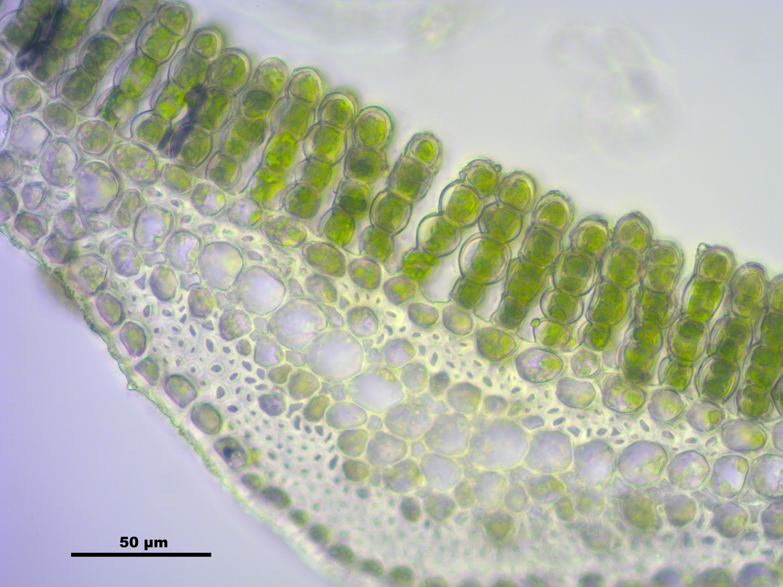 Polytrichum longisetum